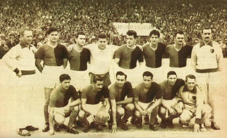 Colón 1939 en Ciudadela